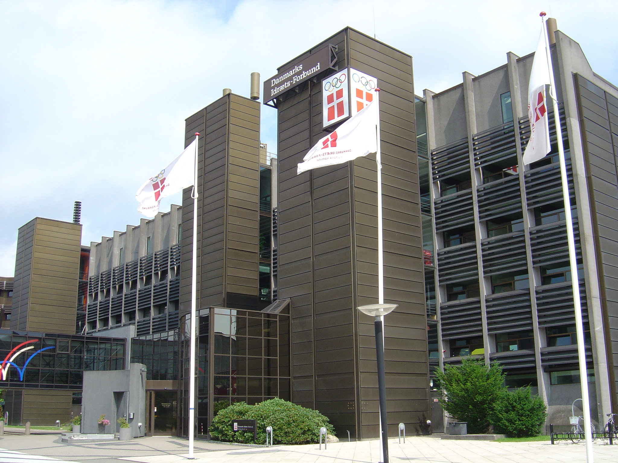 Idrættens Hus is at hotel- conference- and officebuilding. - Team Danmark, Danmarks Idræts-Forbund and 15+ has head Office in Idrættens Hus in Brøndby, Copenhagen. Seen from the southwest side, next to Brøndby Stadium.